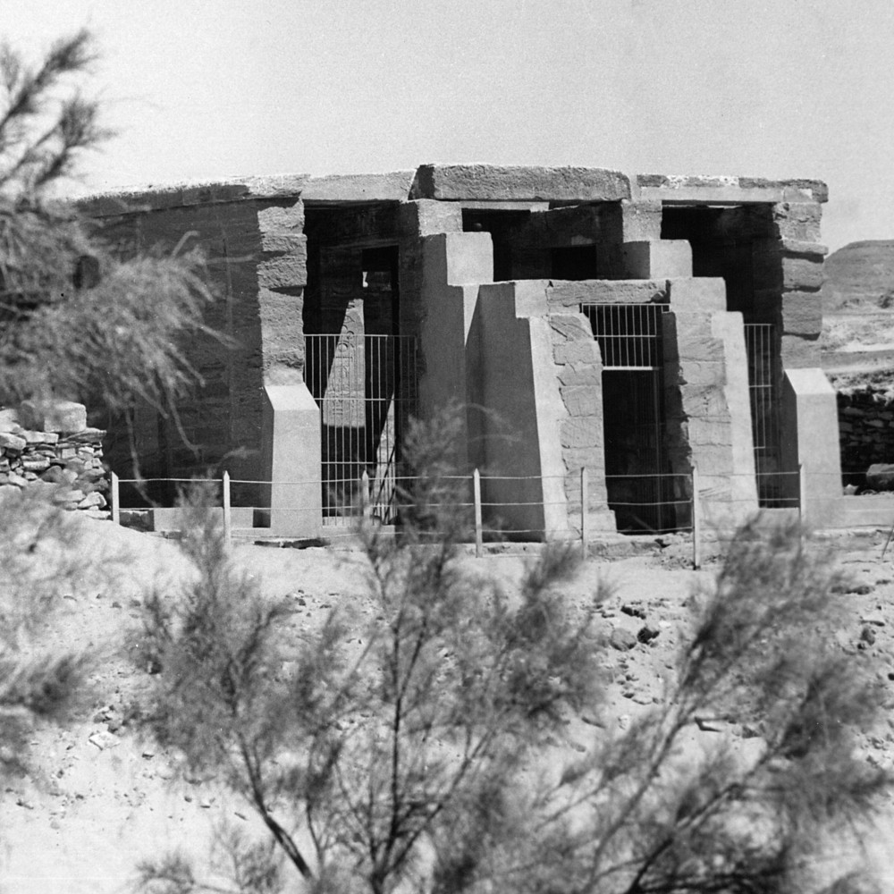 Temple founded by Tuthmosis III end Amenophis II of the XVIIIth dynasty ( 1504 - 1425 B.C. ) - exterior view. the temple could be moved to a neighbouring oasis.